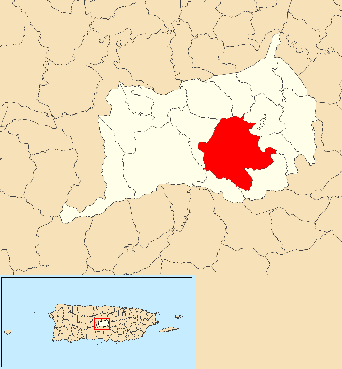 Saltos, Orocovis, Puerto Rico locator map